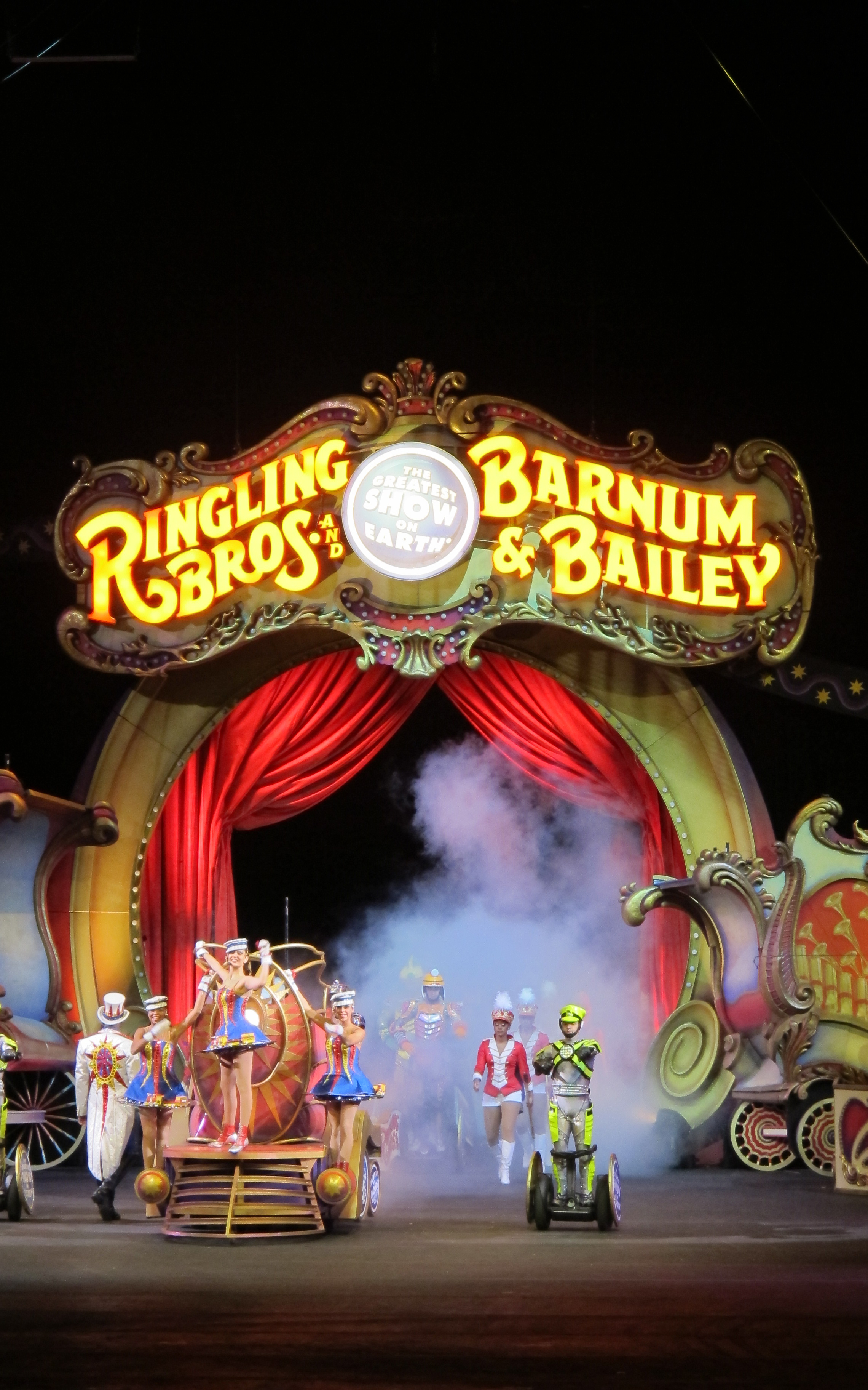 The Ringling Barnum bros & Baley Circus.